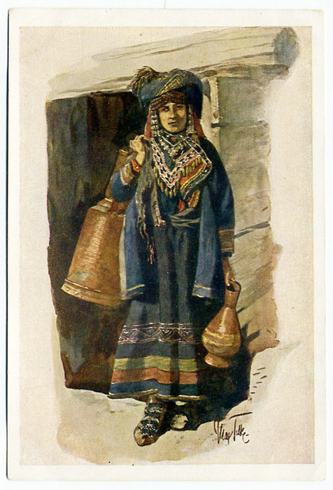 Khevsur woman